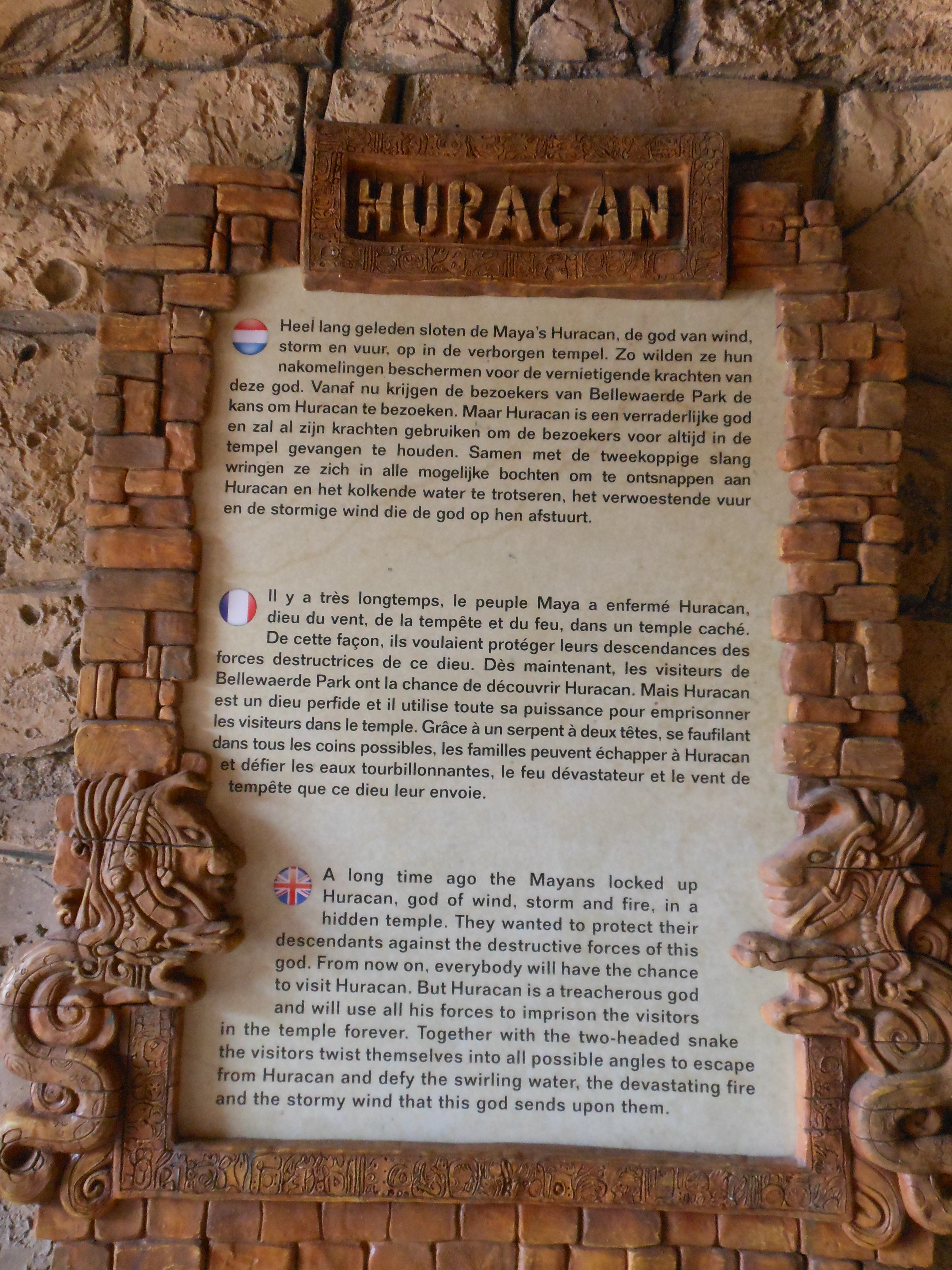 The background story of the darkride coaster Huracan at theme park resort Bellewaerde, Ypres, Flanders, Belgium.